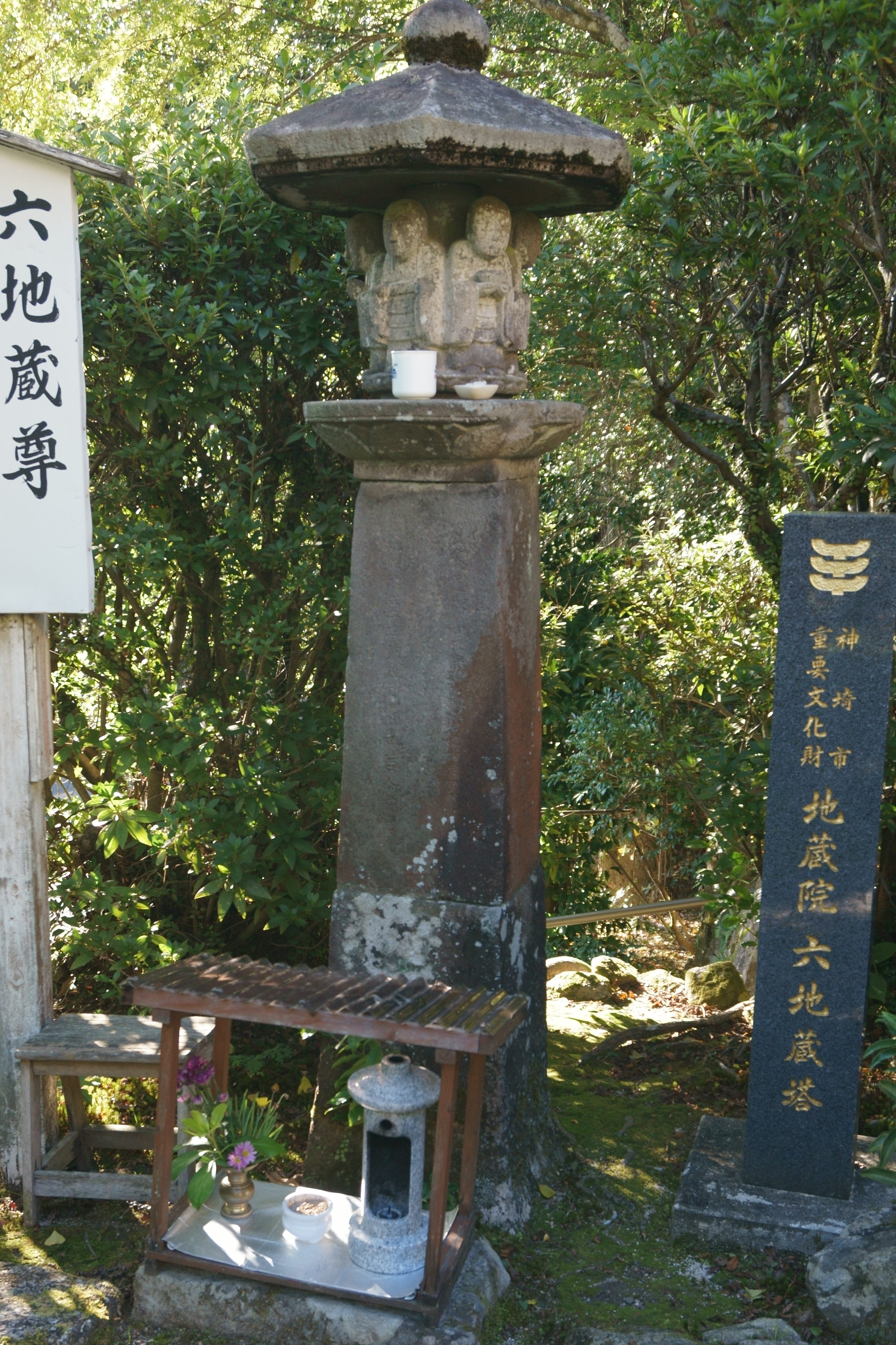 "Rokujizō", a Buddha statue at Niiyama Jizōin Temple, in Kanzaki, Saga.